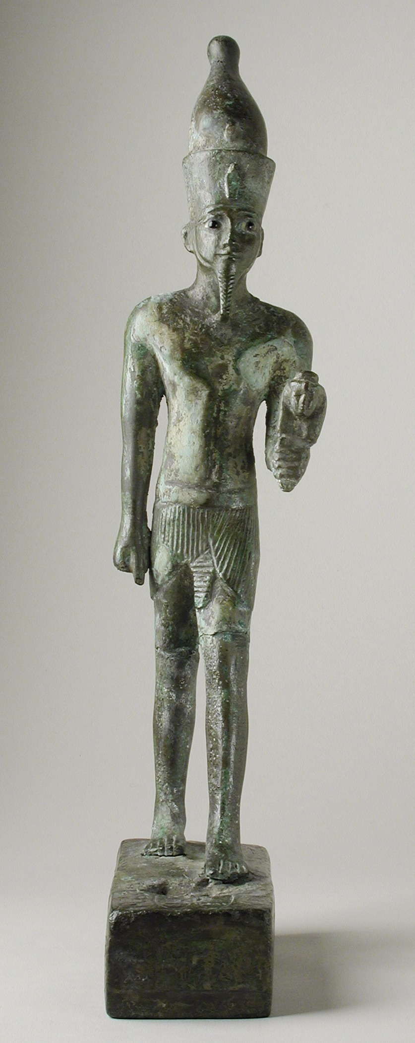 Egypt, Late Period, 29th Dynasty, reign of Psamuthis (392 - 380 BCE) or later Sculpture Bronze The Phil Berg Collection (M.71.73.57) Egyptian Art